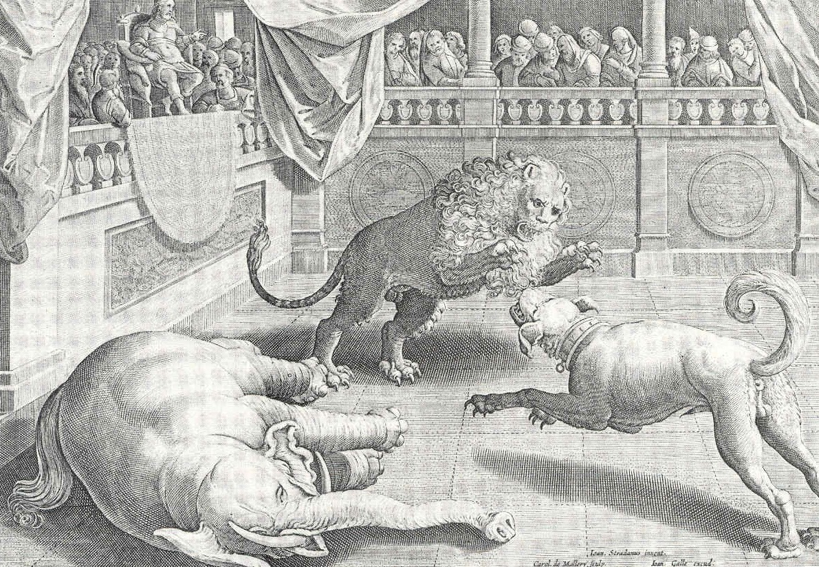 Title: Unknown Artist: Stradanus (1523 - 1606) Depiction: Lion-baiting spectacle in the arena watched by Alexander the Great Source: My private collection Headphonos